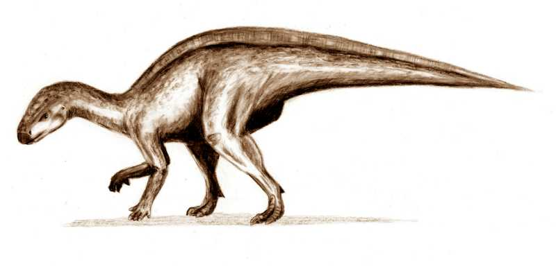 Rhabdodon, pencil drawing Author:User:ArthurWeasley